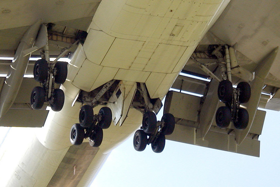 Wing and fuselage undercarriages on a Singapore Airlines Boeing 747-400 landing at London Heathrow Airport, England. The last three letters of the registration (9V-SMT) can just be seen on the fuselage in the lower left.